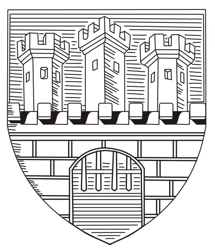 Coat of arms of Cluj-Napoca city, Romania at 1377.